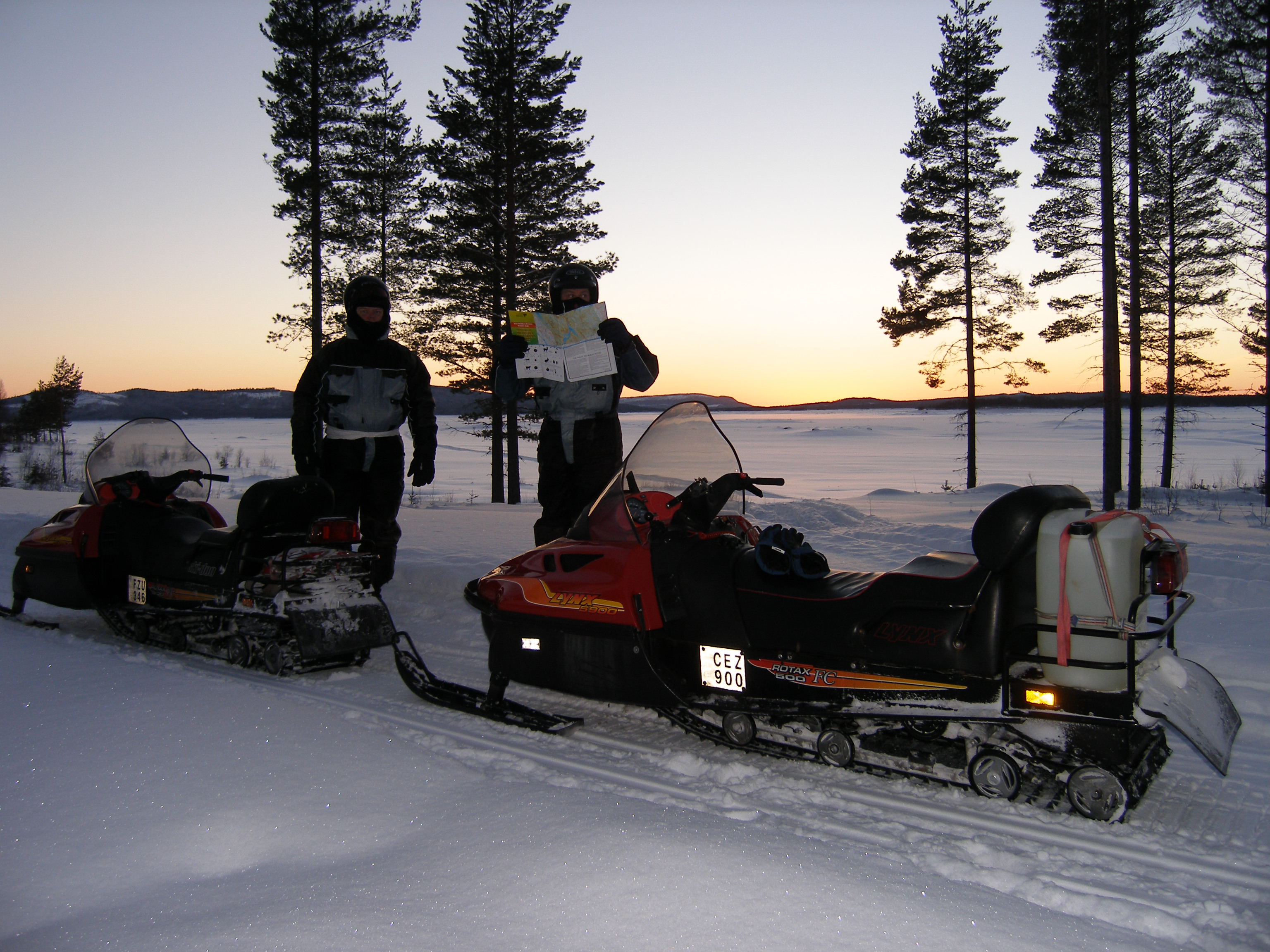 Letafors. Far from home!